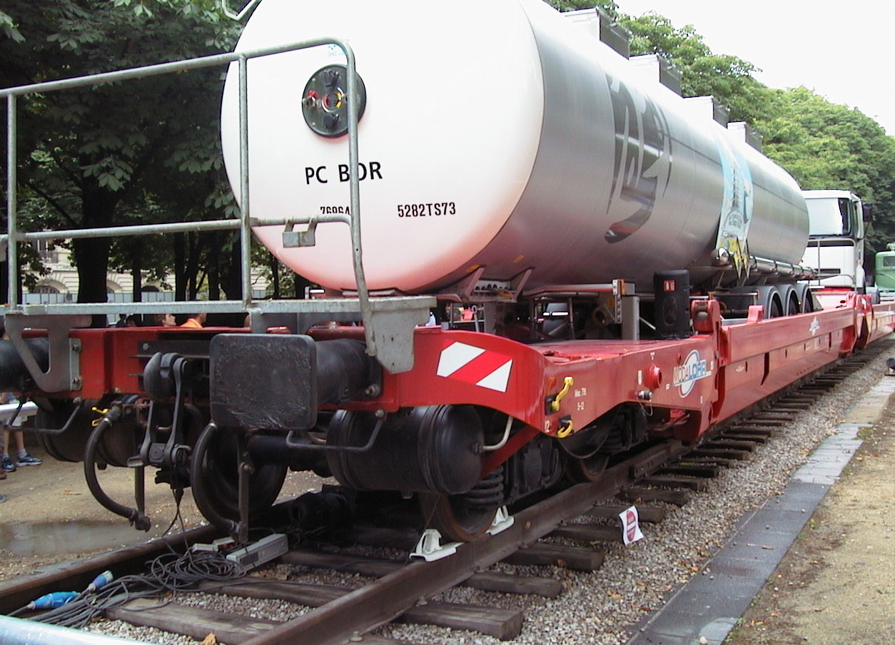 French Modalohr combined transport wagon in Train Capital exhibition (Paris-2003)